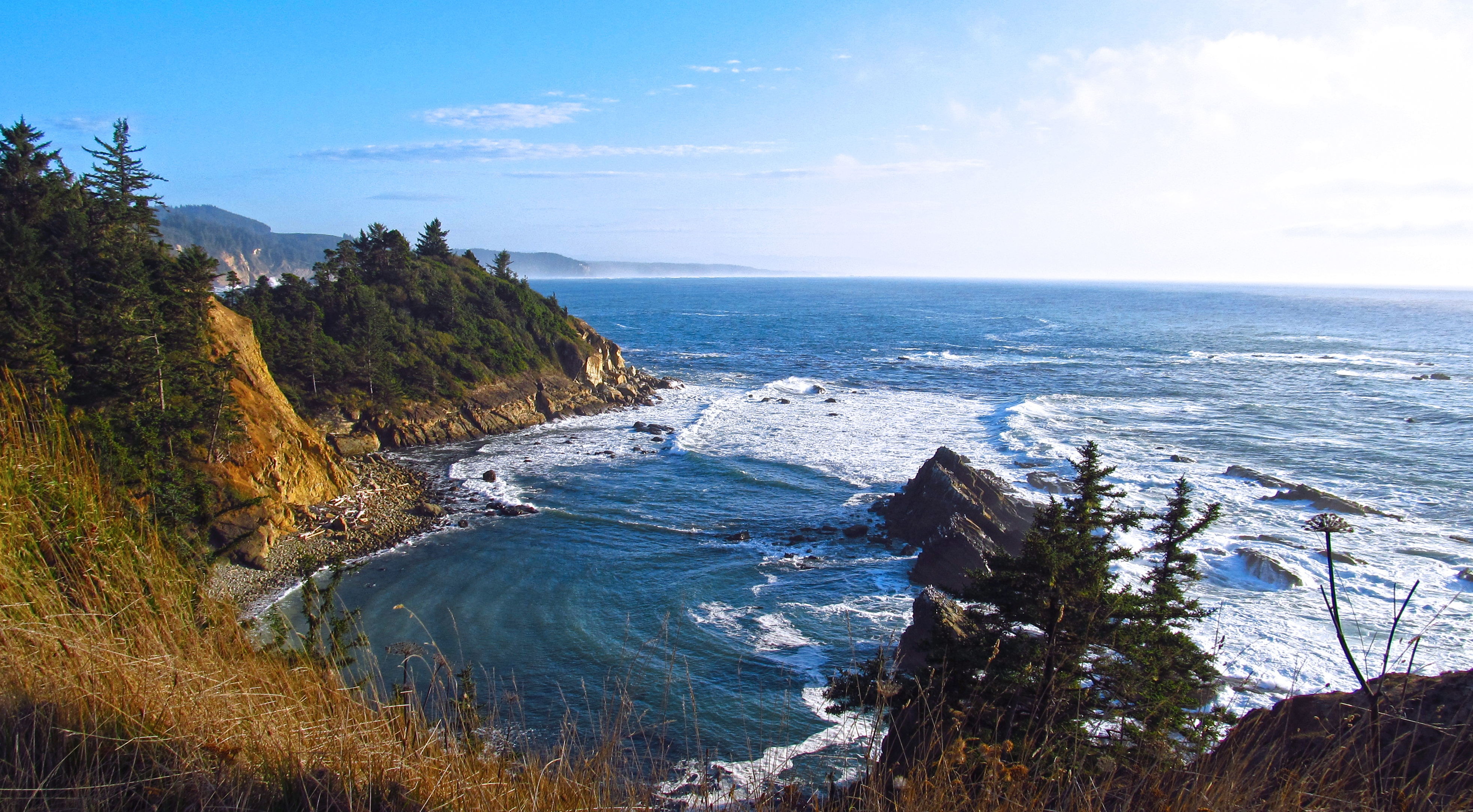 Cape Arago Site (35CS10)